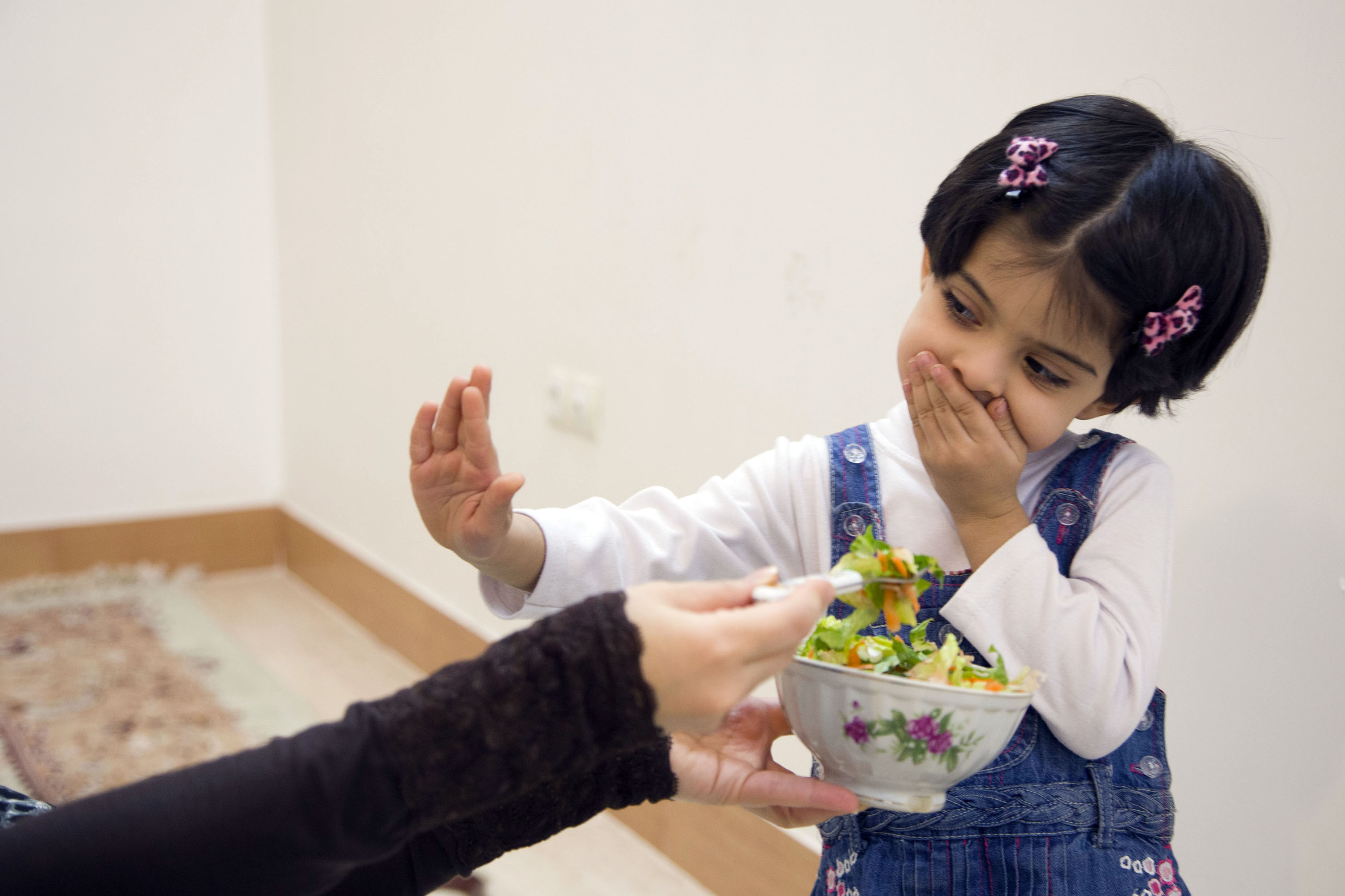 Nutrition is the science that interprets the interaction of nutrients and other substances in food in relation to maintenance, growth, reproduction, health and disease of an organism.